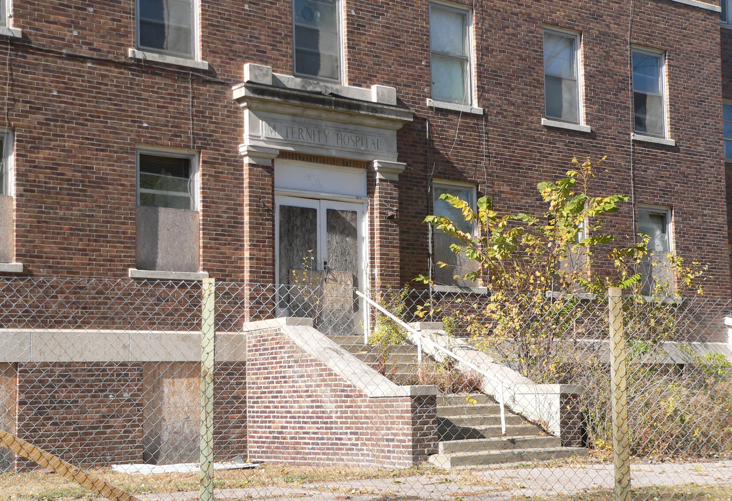 Crittenton Center in Sioux City, Iowa, located at 28th and Court Street in Sioux City, Iowa. Photo shows the east (main) entrance of the 1913 building.